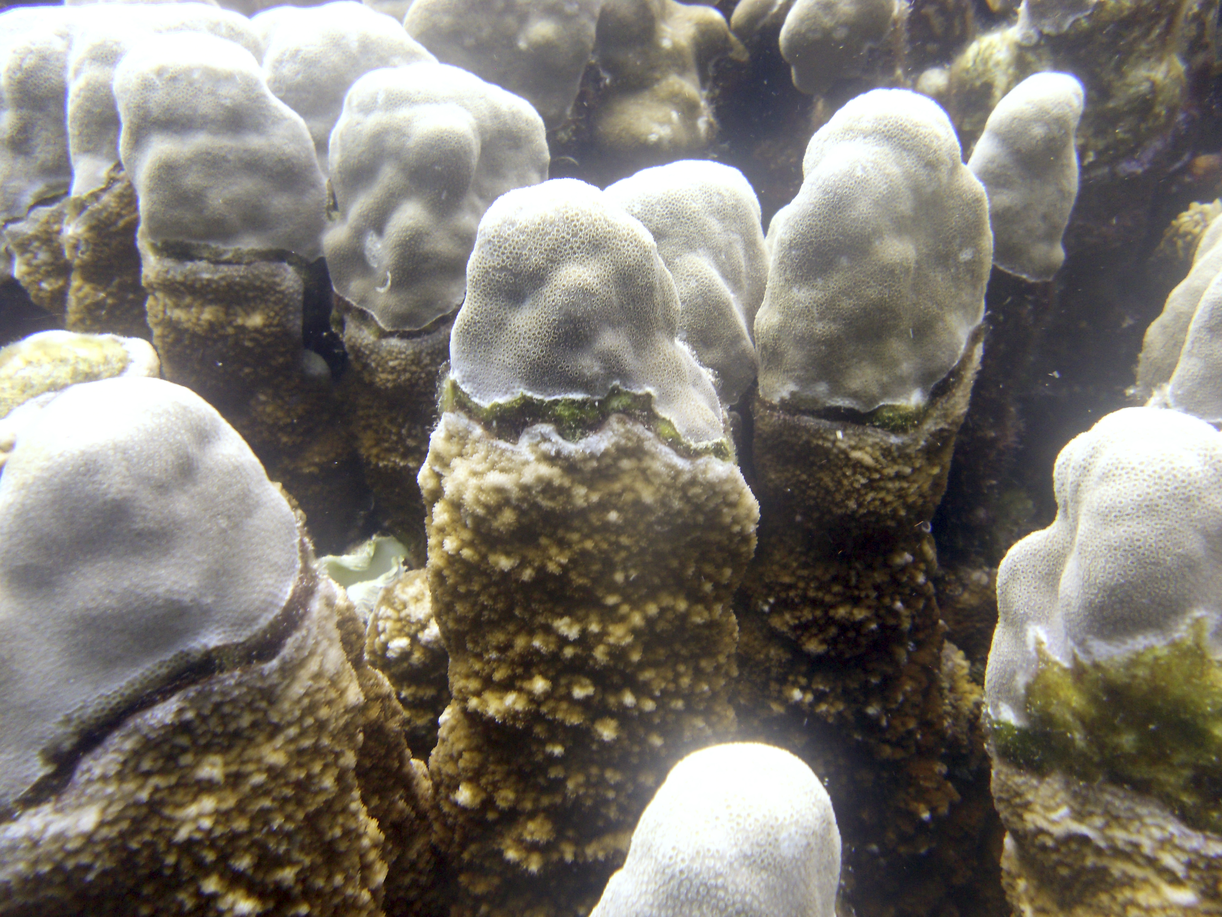 Colonie of Porites sp. (Poritidae) and Montipora sp. (Acroporidae)St. John Reef, Red Sea